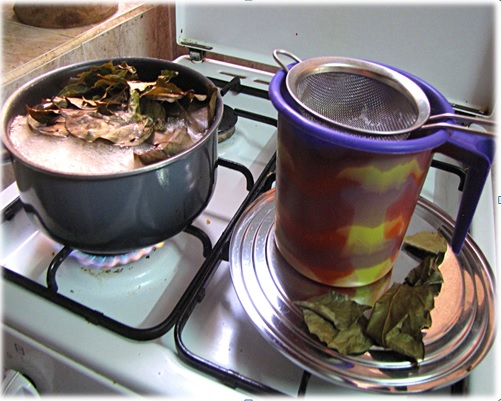 Kinkeliba tea preparation. Dried leaves of the combretum micranthum shrub are boiled in water for a few minutes, then poured through a strainer, then served hot with or without sugar and/or milk, as tastes prefer. This is an image of food from Senegal